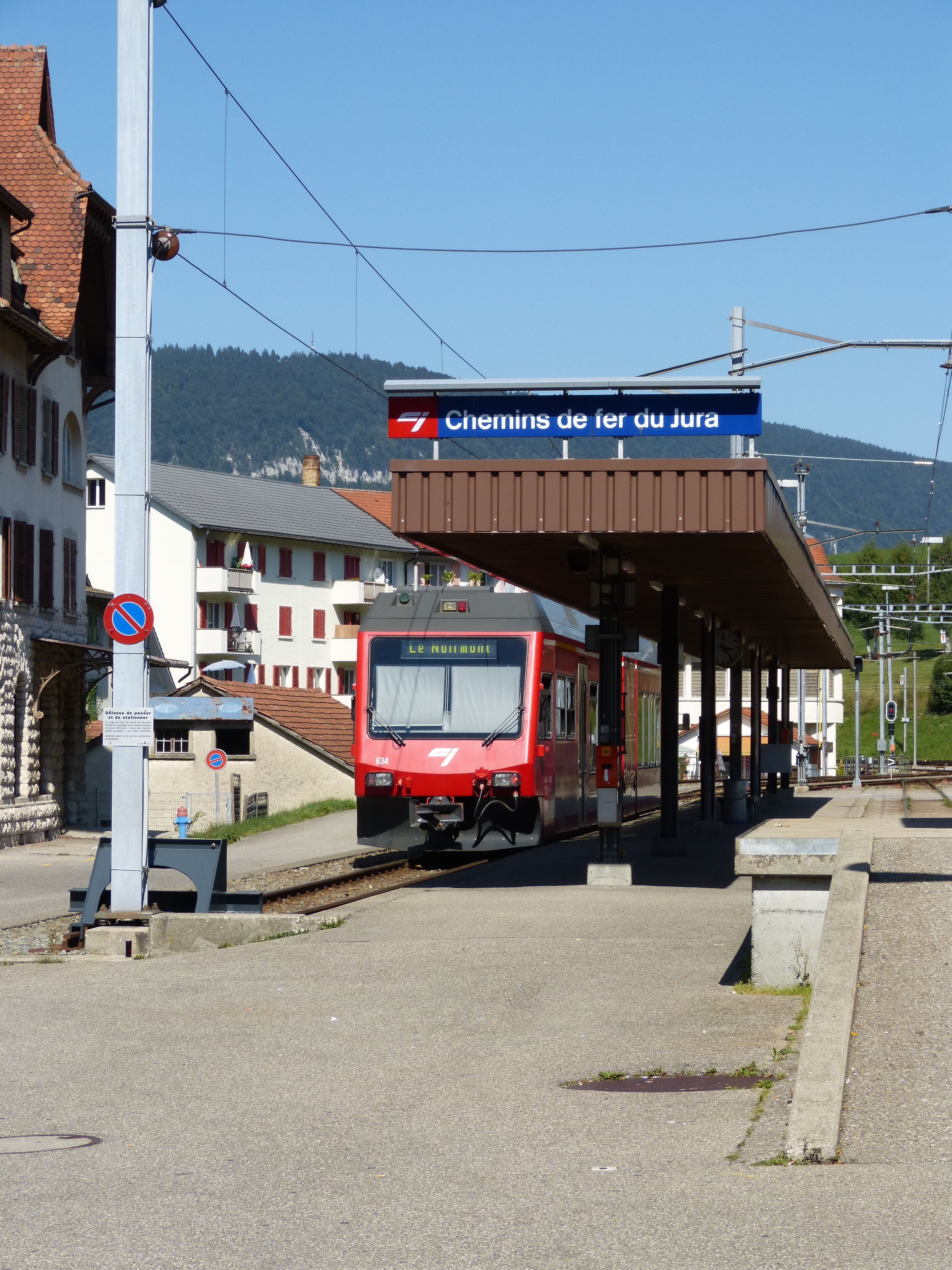 Tavannes railway station - tracks in direction of La Chaux-de-Fonds.